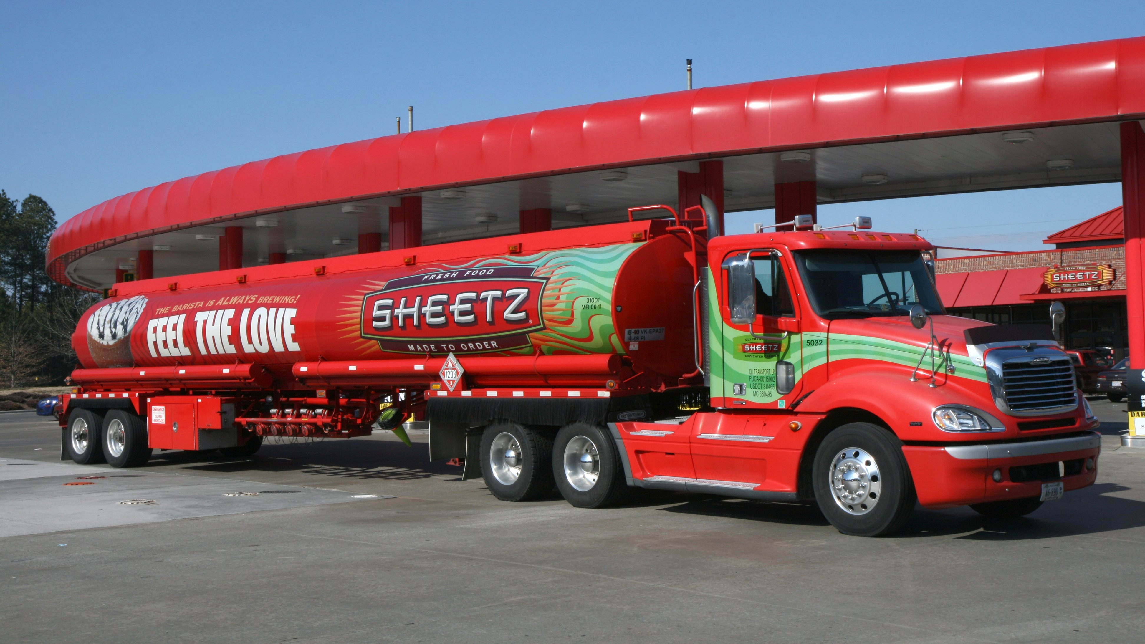 A Sheetz tank tuck ready to refill a gas station on Aviation Parkway next to Raleigh-Durham International Airport in Morrisville, North Carolina.